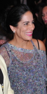 Actress Glória Pires during the premiere of her film Lula, o Filho do Brasil at the Brasília Film Festival in November 17, 2009.